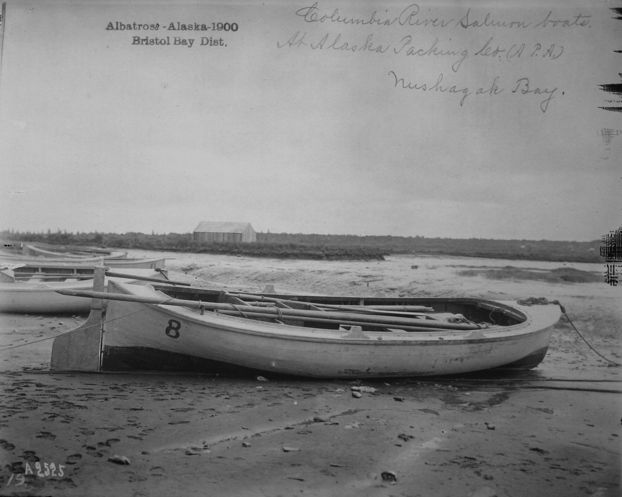 Bristol Bay district, Columbia River salmon boats at Alaska Packing Co. (A.P.A.), Nushagak Bay. Credit: Gulf of Maine Cod Project, NOAA National Marine Sanctuaries; Courtesy of National Archives. From cyanotype original.